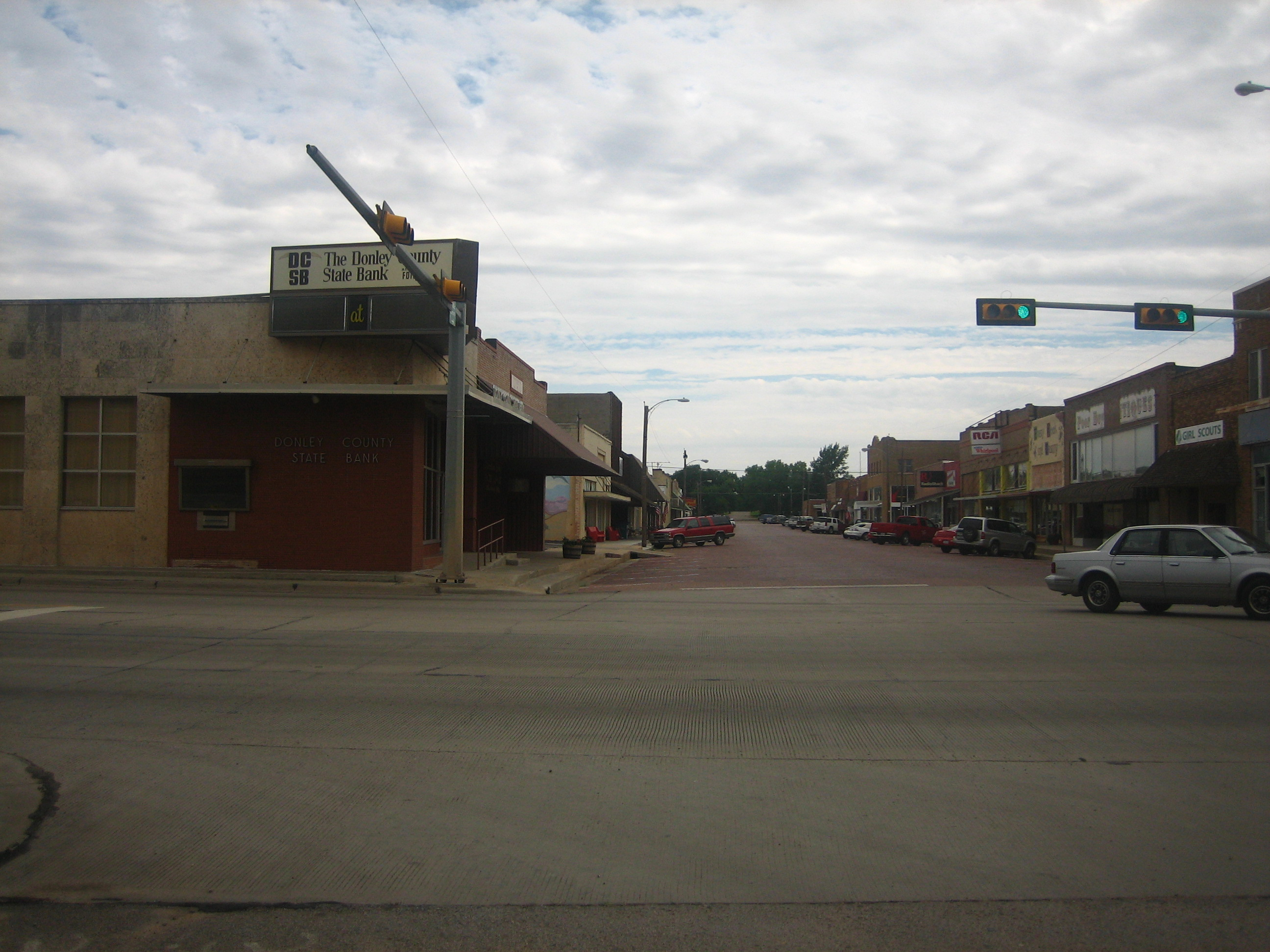 I took photo on July 15, 2008.Billy Hathorn (talk) 23:54, 22 July 2008 (UTC)